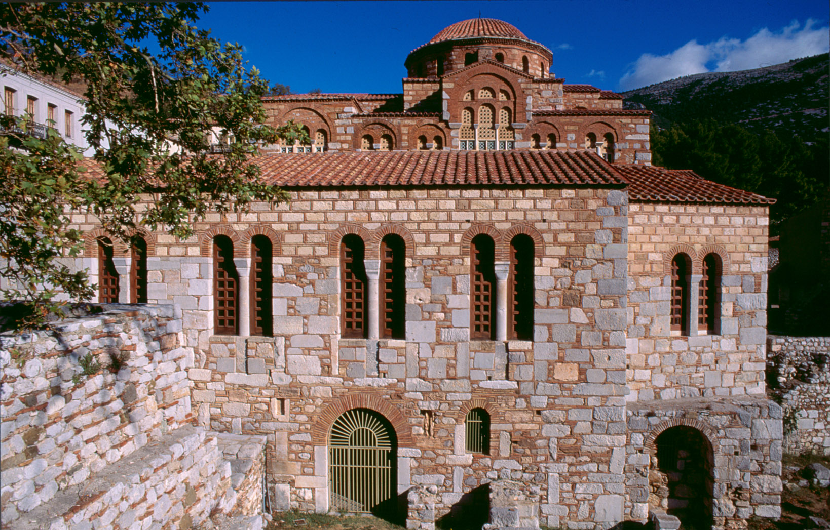 Part of the monastery "Hosios Loukas", near Delphi. Own work, 2003, MC Rokkor-PG 50/1,4 on Velvia 50.